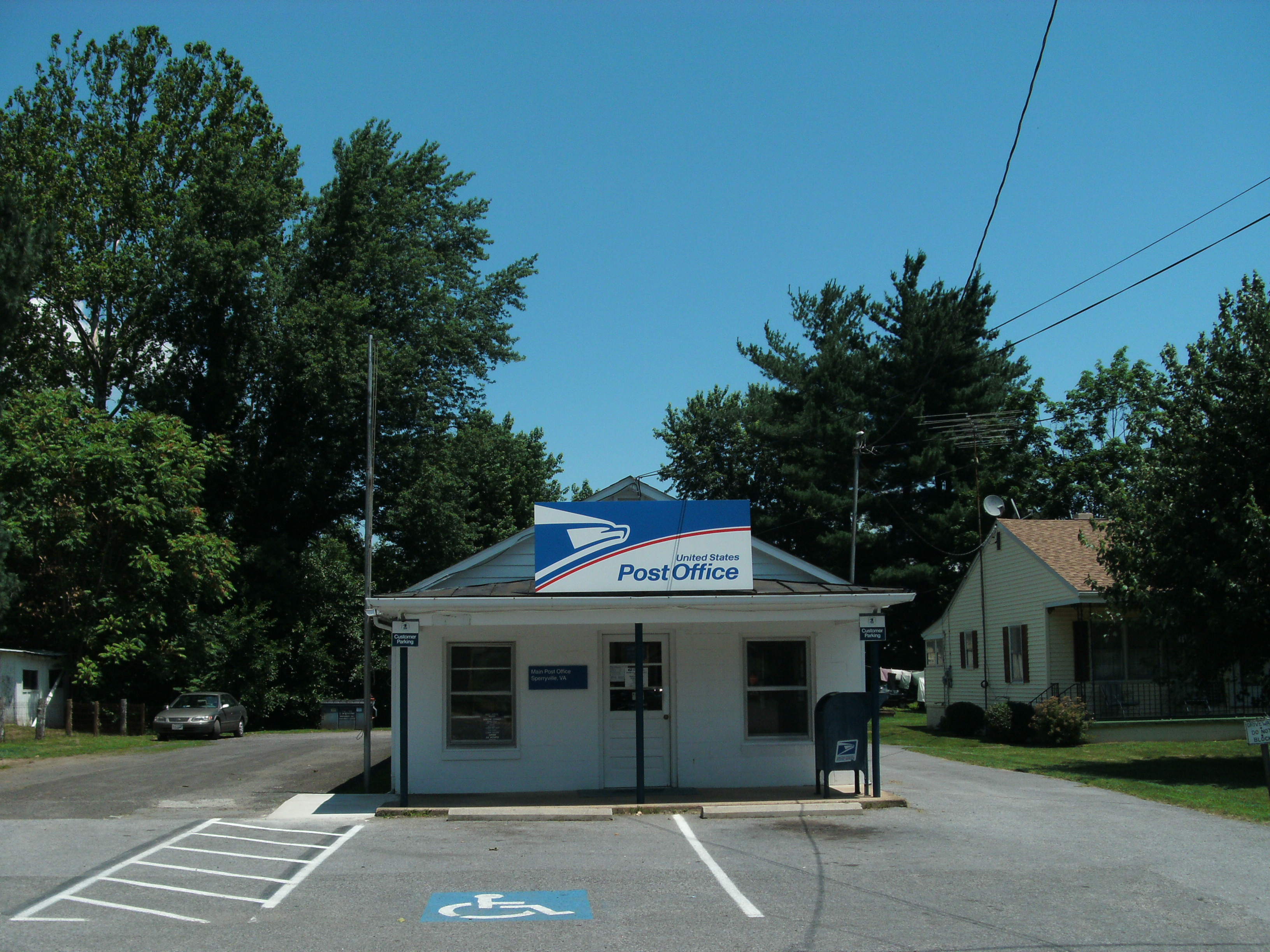 United States Post Office in Sperryville, Virginia, USA.